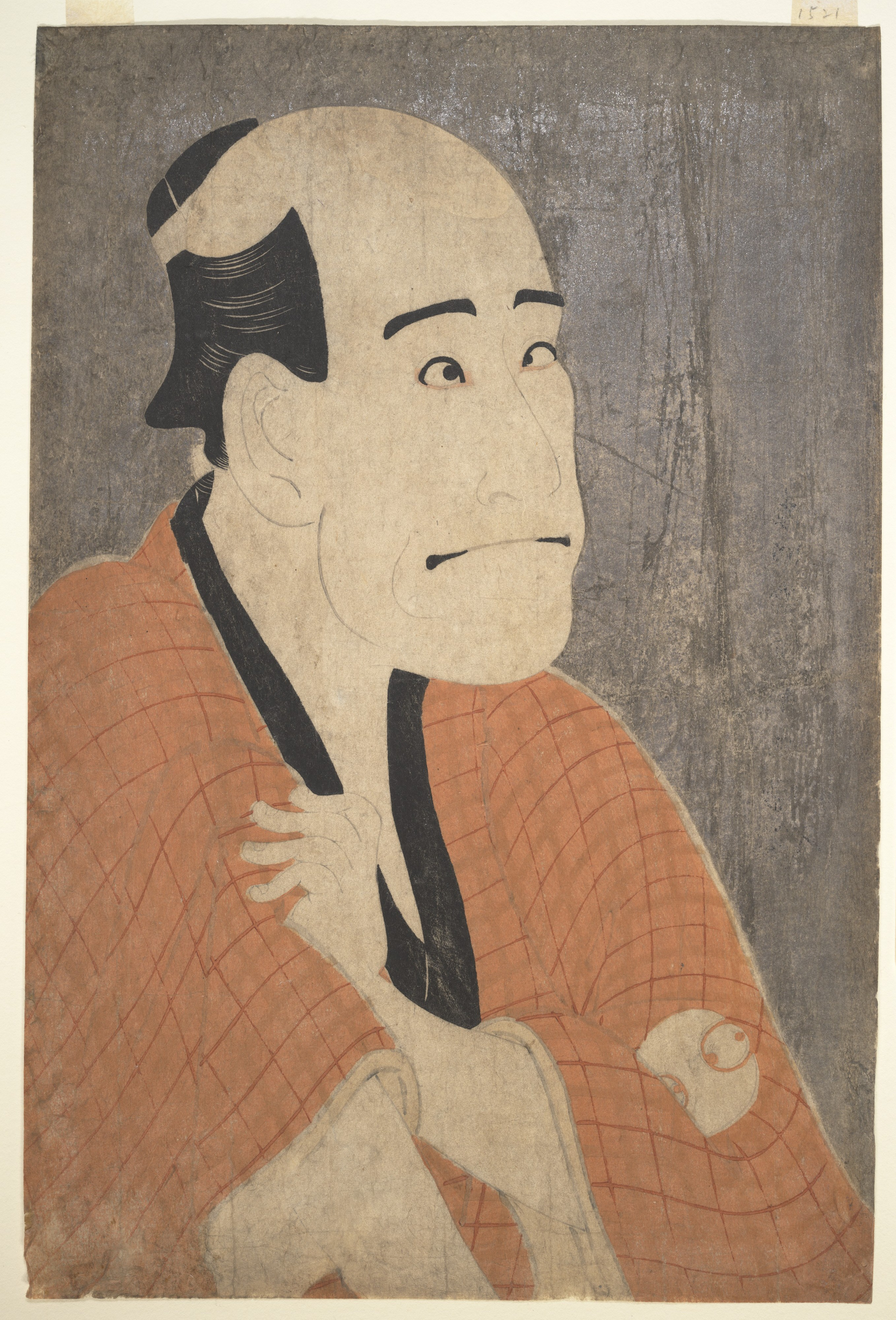 Arashi Ryūzō I as Ishibe Kinkichi in the play Hana Ayame Bunroku Soga. From the MET Museum.